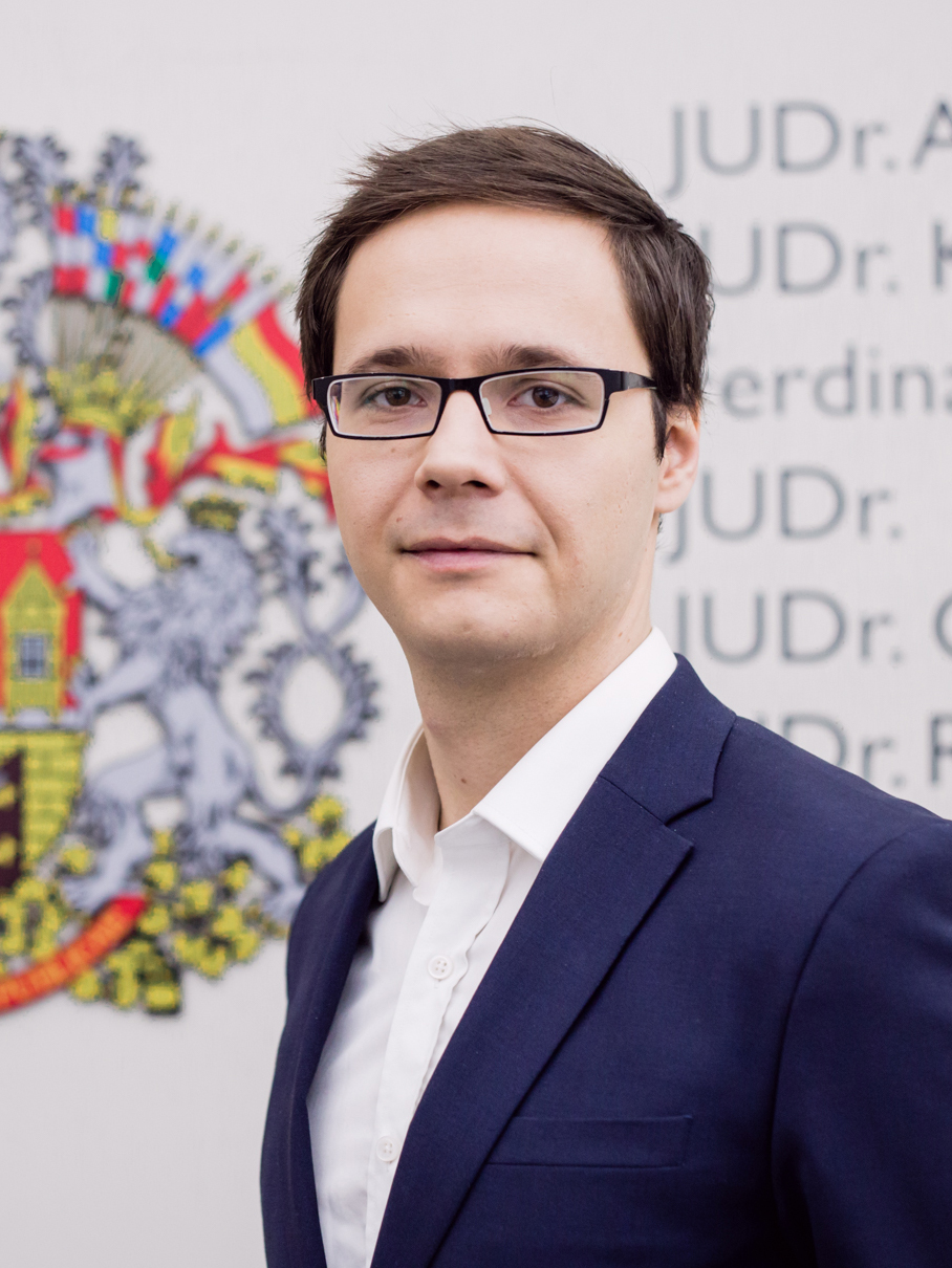 Adam Zábranský, member of the Prague City Council Personality rights warningAlthough this work is freely licensed or in the public domain, the person(s) shown may have rights that legally restrict certain re-uses unless those depicted consent to such uses. In these cases, a model release or other evidence of consent could protect you from infringement claims.